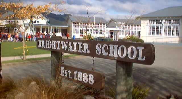 Brightwater school in Brightwater - front sign of Brightwater School.